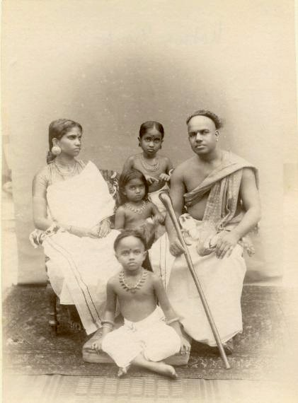 Albumen photograph of an Indian family with children.